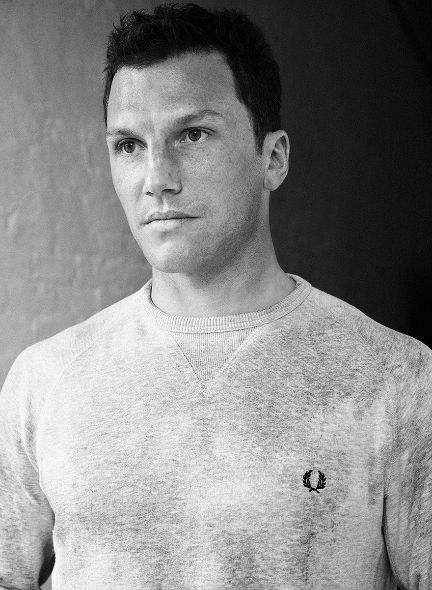 A headshot of former NHL player Sean Avery.